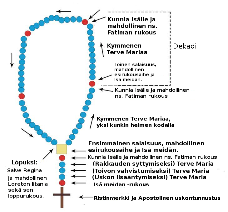 The Finnish version is based on the Swedish translation version File: Rosenkrans.jpg, the original version File: Gospina Krunica.jpg. The source in the Finnish version of the text is the Catholic Church in Finland website. Texts have substantive differences between versions.